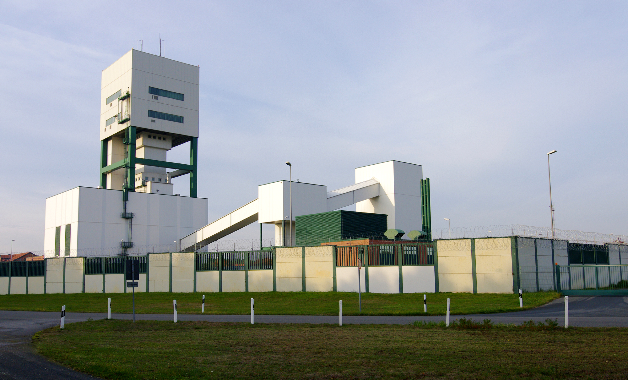 A small part of the so-called exploration mine near Gorleben (district Lüchow-Dannenberg) for a planned long-term repository of German highly radioactive nuclear waste in a salt dome. The site is located a few hundred meters distance from the aboveground interim storage facility for German highly radioactive nuclear waste, which is the goal of annual "Castor" transports. (Both devices are often confused with each other or not distinguished in the public perception.)